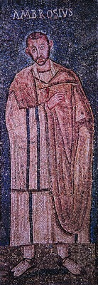 San Vittore in Ciel d'oro. Ambrosius Mediolanensis, V centure